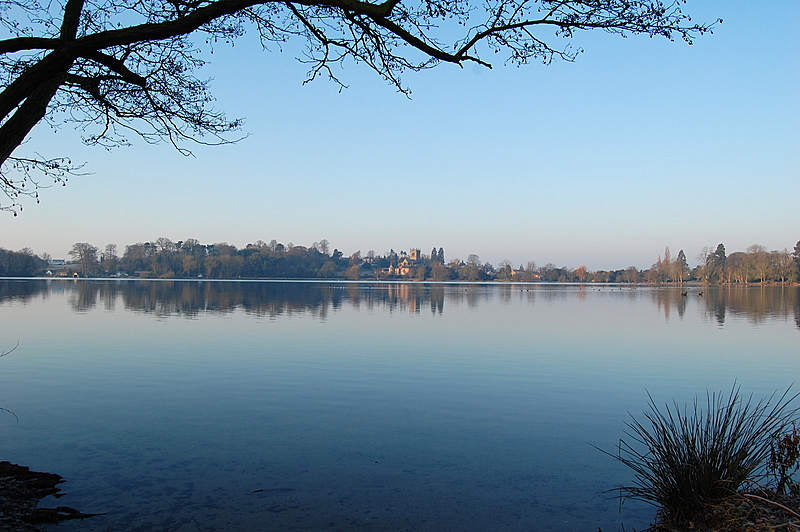 The Mere, Ellesme